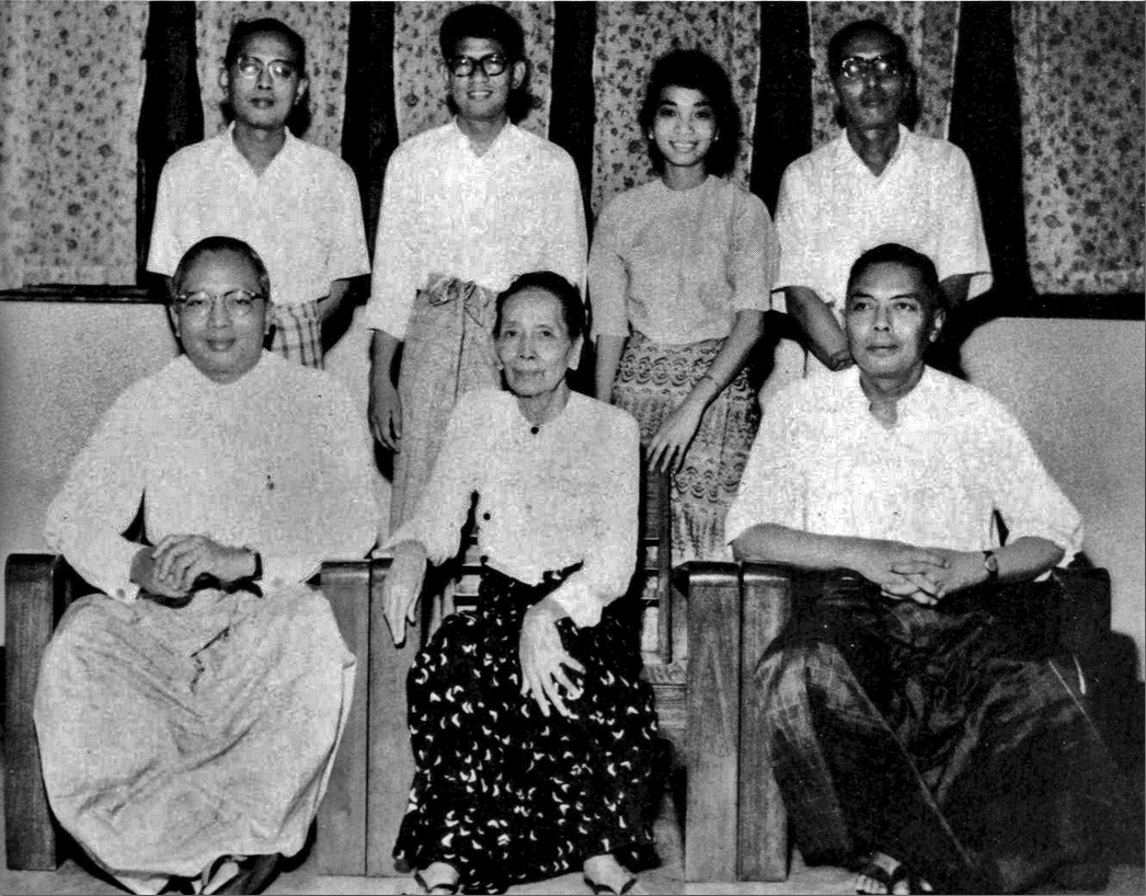 U Thant with his family, July 1964. Standing, left to right: U Tin Maung, Dr. Tyn Myint-U, Aye Aye, U Thaung; seated, left to right: U Thant, Daw Nan Thaung, U Khant.